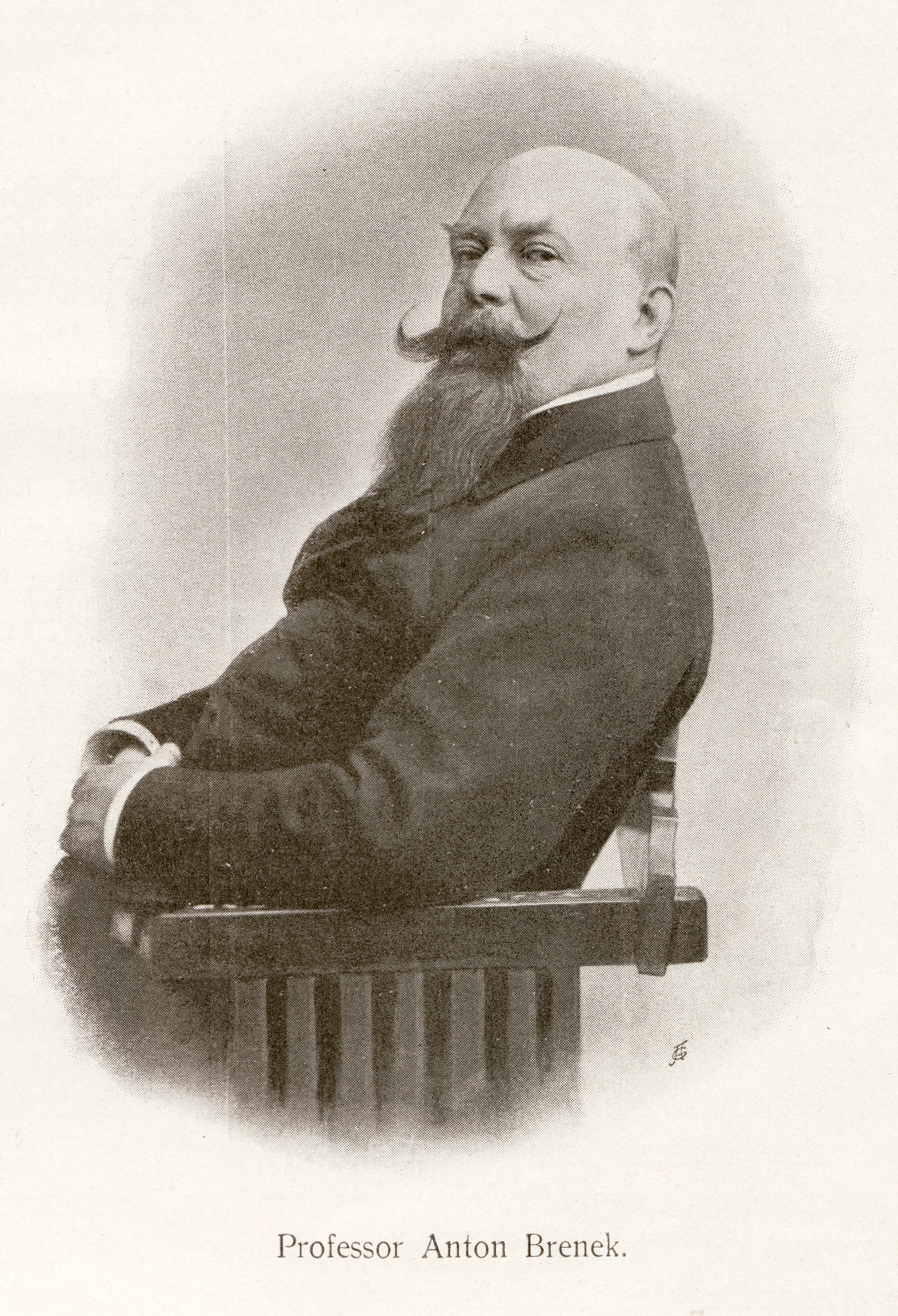 Professor Anton Brenek